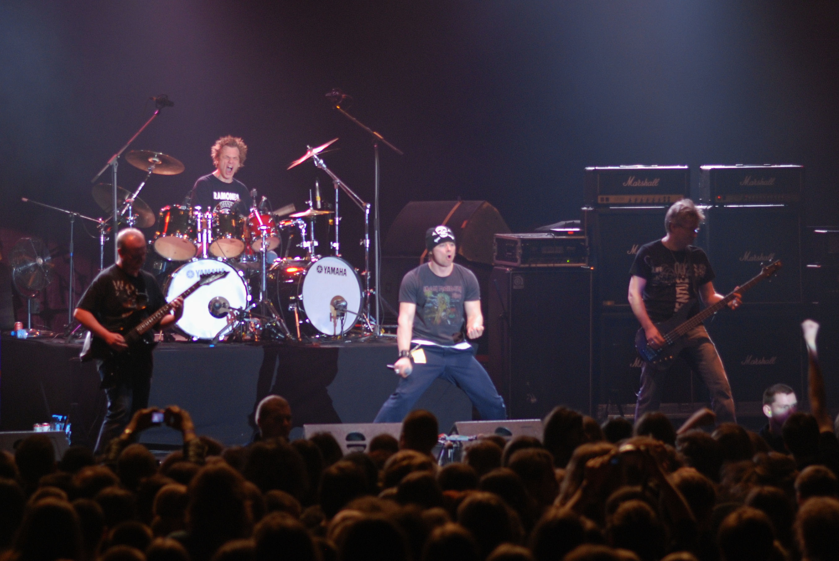 Artillery during Metalmania 2008 festival